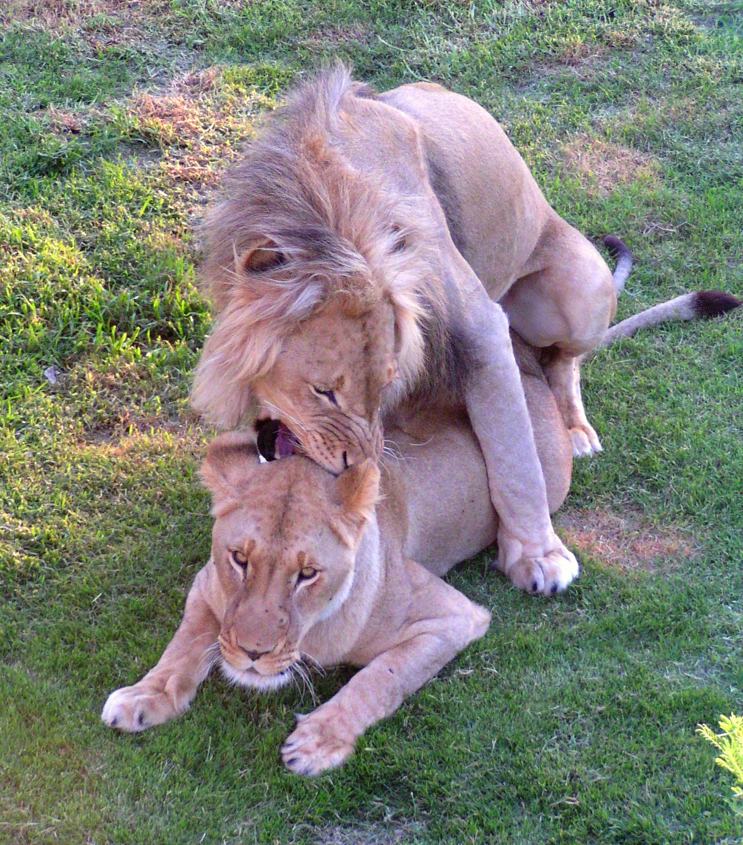 Lion pair making love ;-) Photographed in Africa.